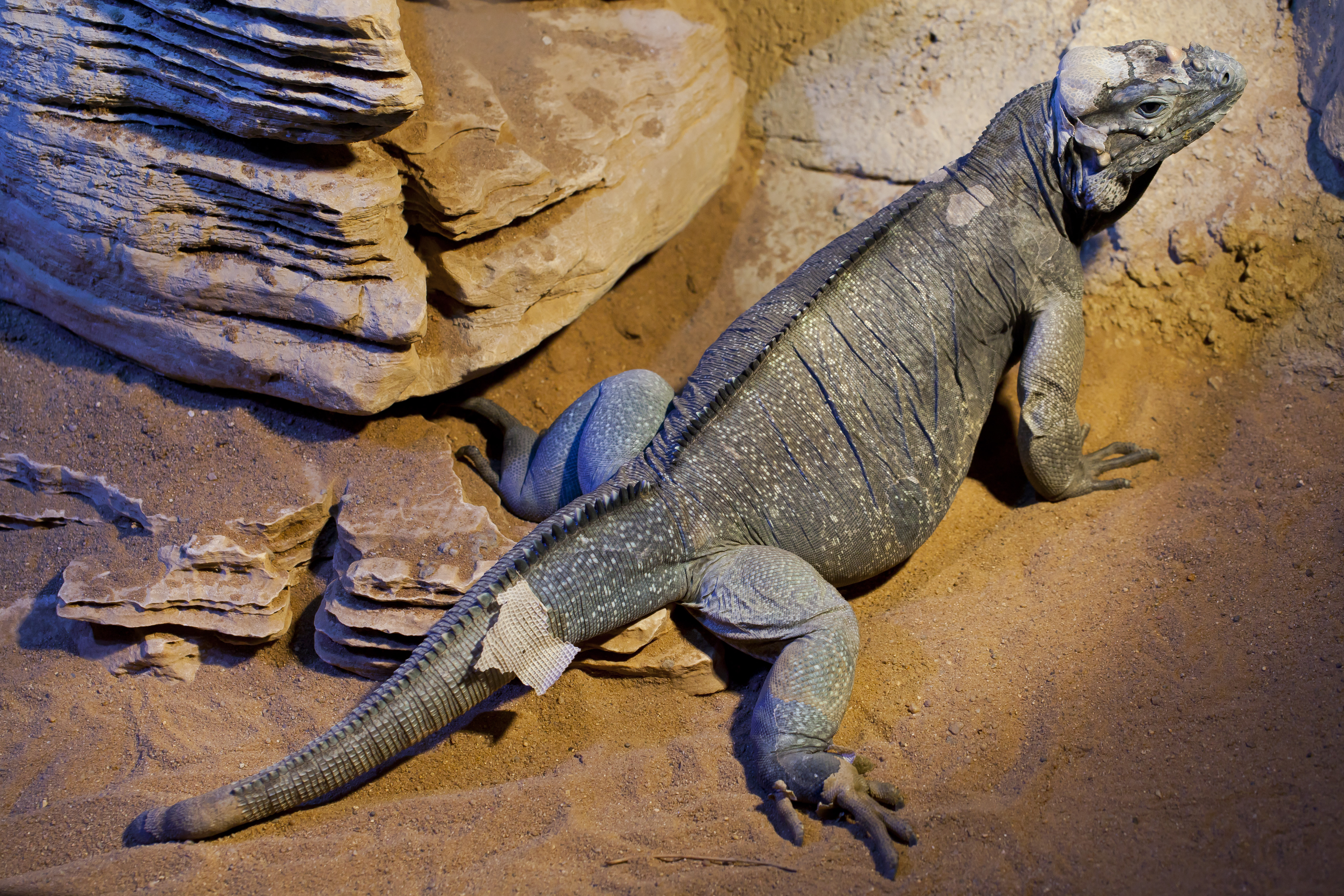 Rhinoceros Iguana (Cyclura cornuta), Tierpark Hellabrunn, Munich, Germany